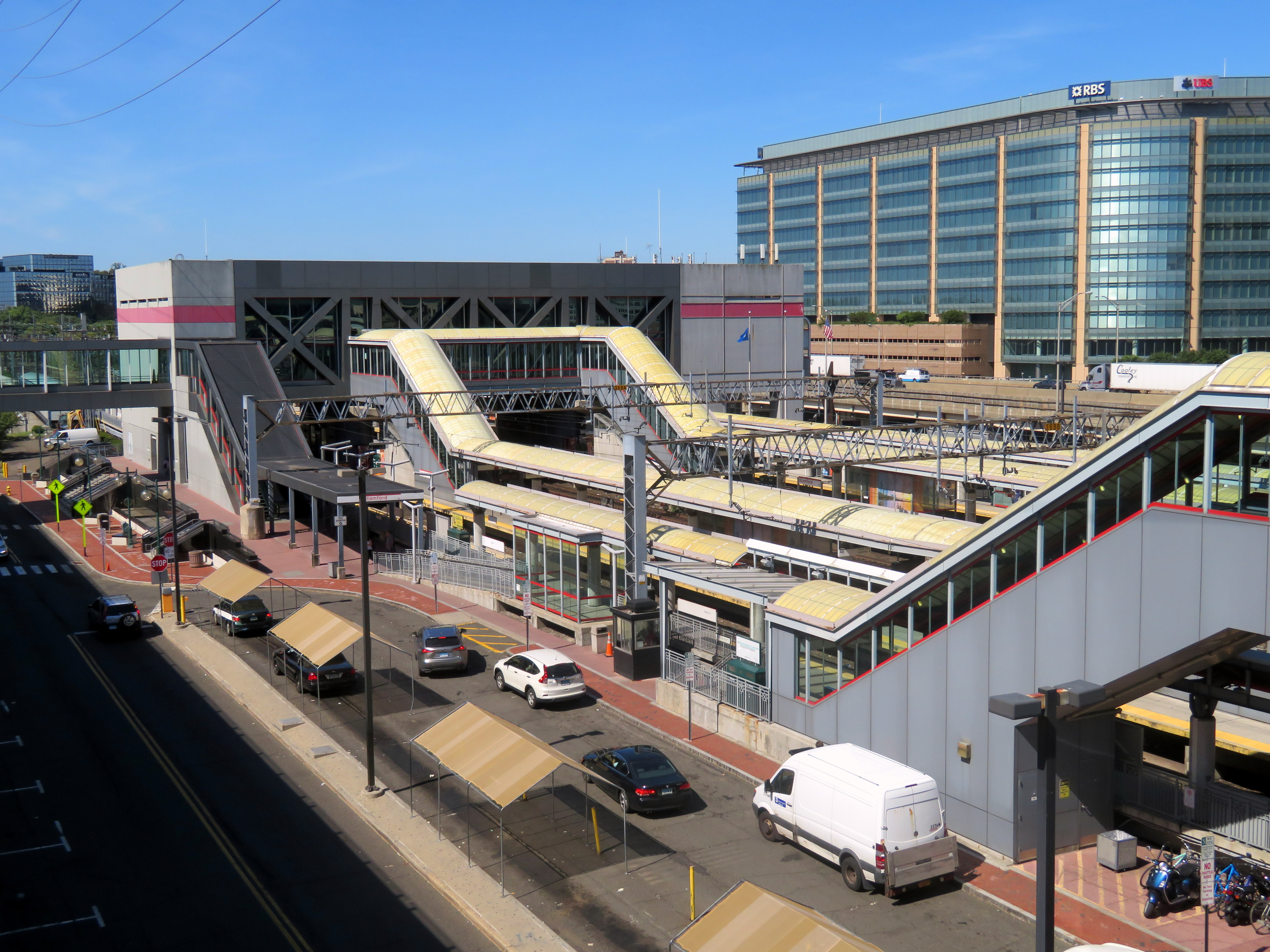 Stamford station viewed from the parking garage in September 2018